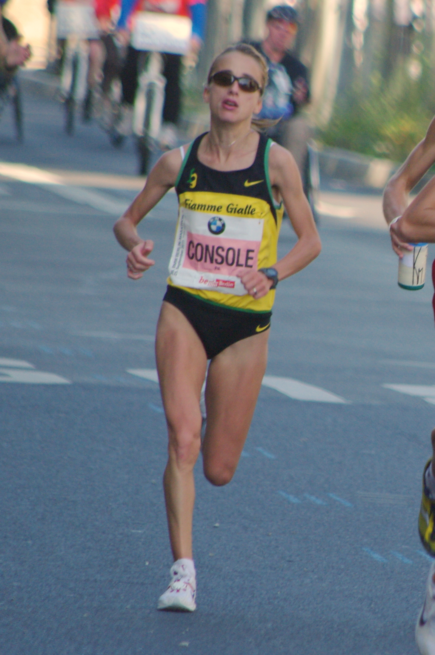 Rosaria Console at the Berlin Marathon 2011 Kilometer 35, Tauentzien. She finished on place 7.